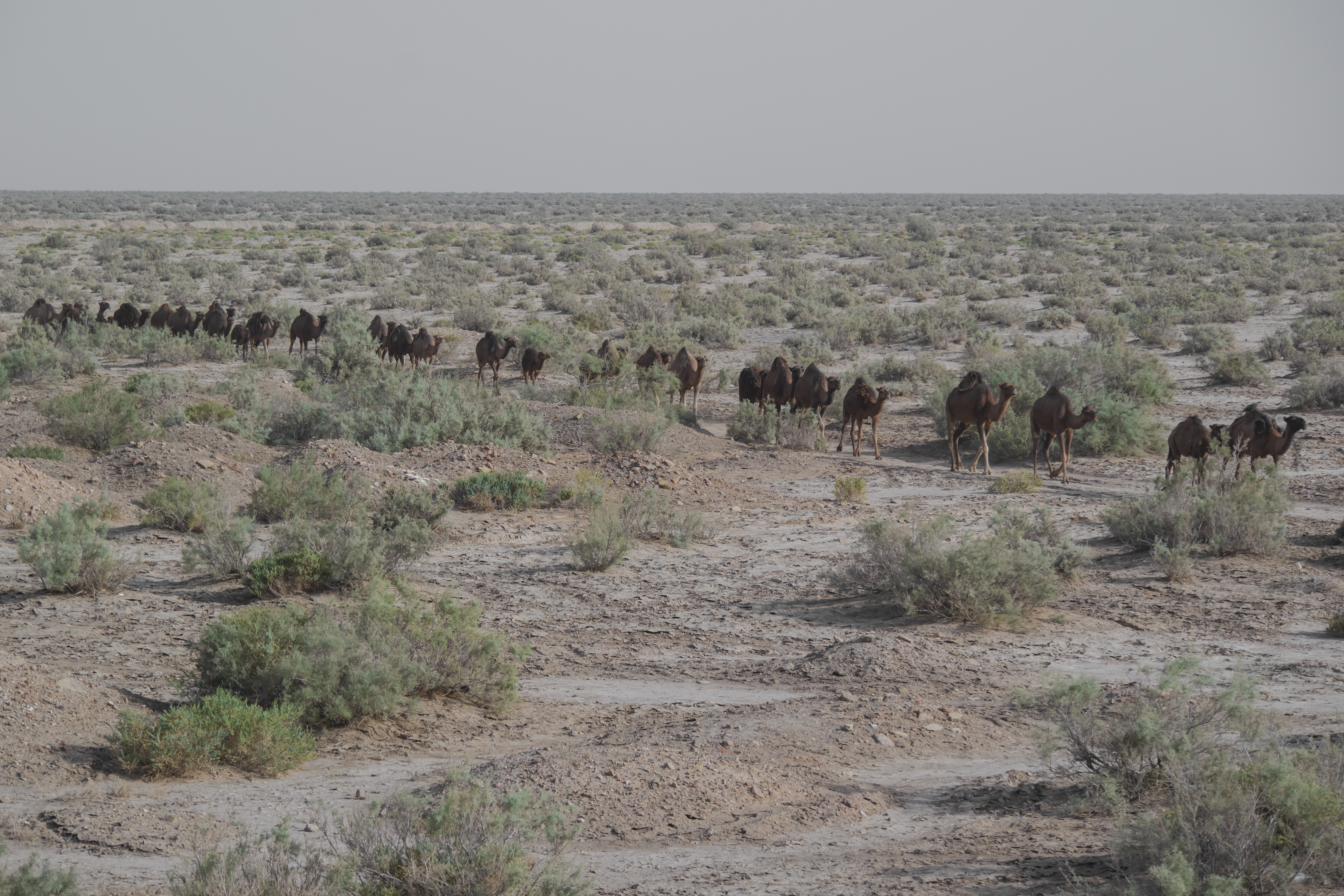 Animals are multicellular eukaryotic organisms that form the biological kingdom Animalia.